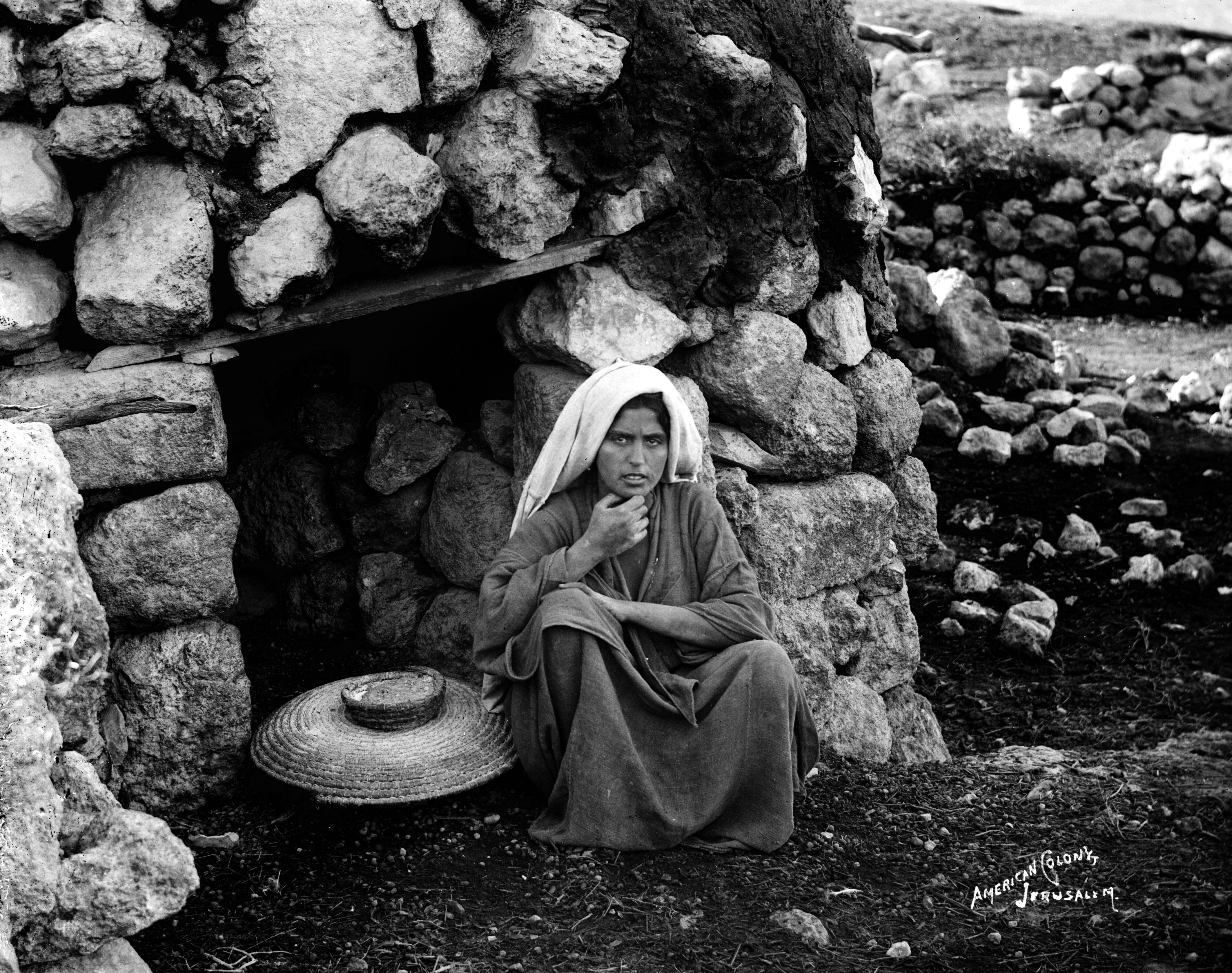 Costumes, characters and ceremonies, etc. Village oven.